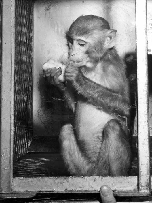 Able first rhesus monkey to return from space.